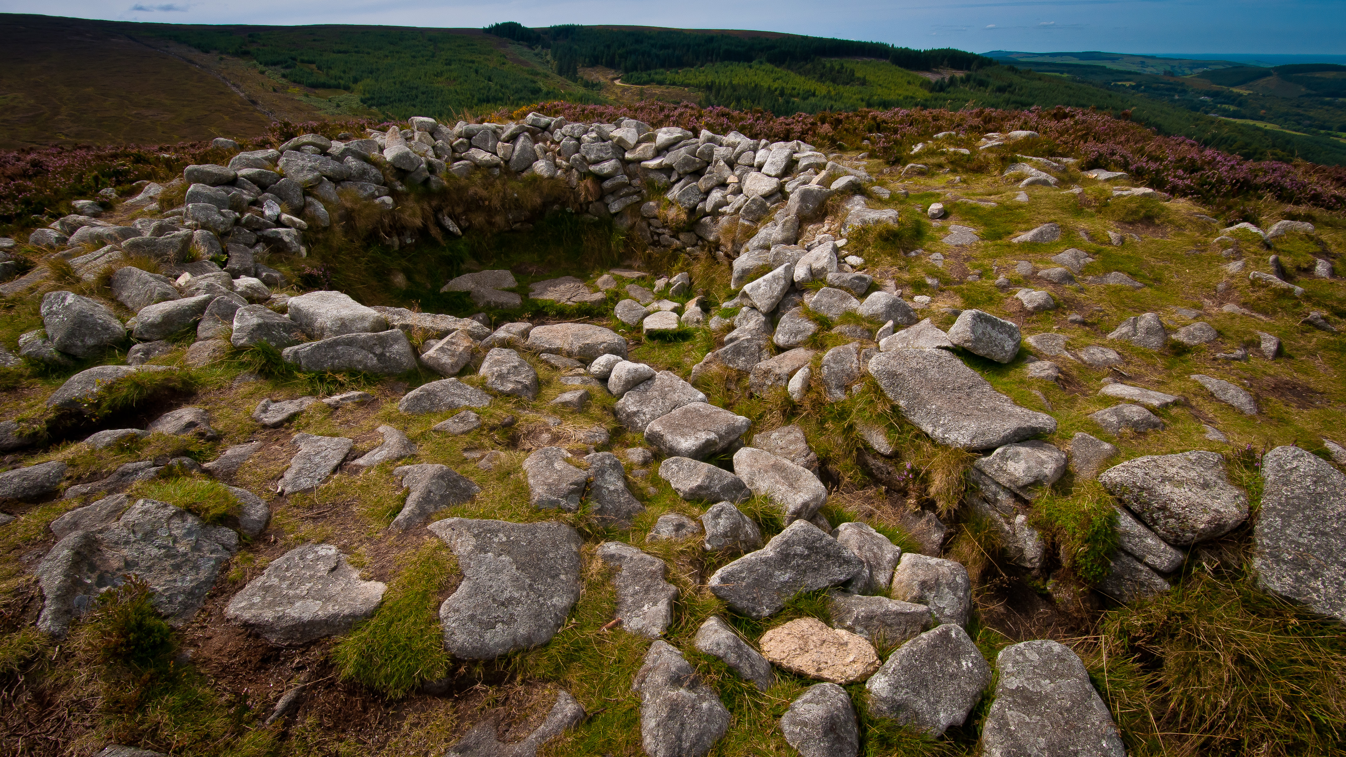 Chambered cairn near the summit of Tibradden Mountain, County Dublin, Ireland